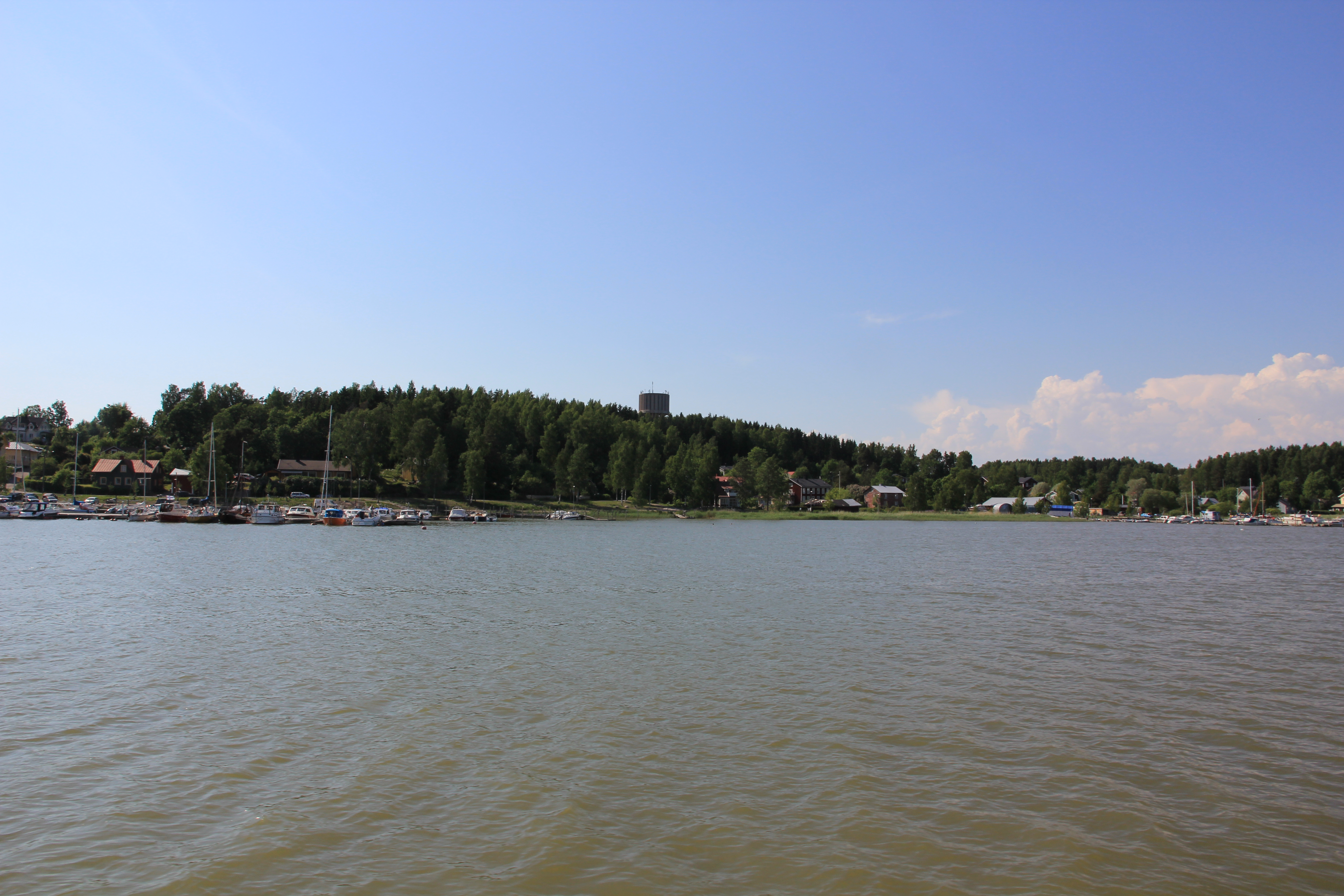 Village of Hamari in Porvoo municipality.